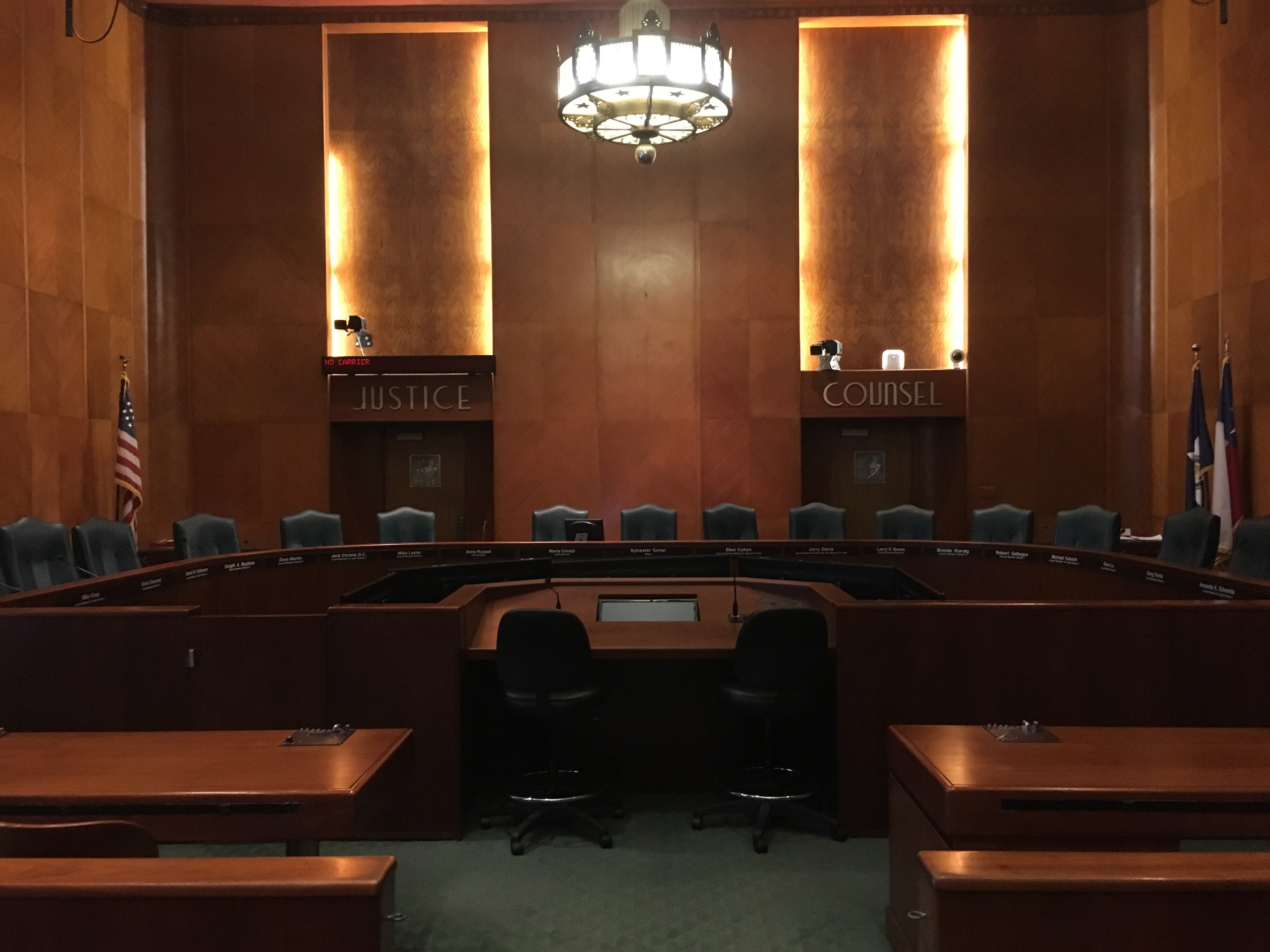 View of the Houston City Council Chambers from audience seating.